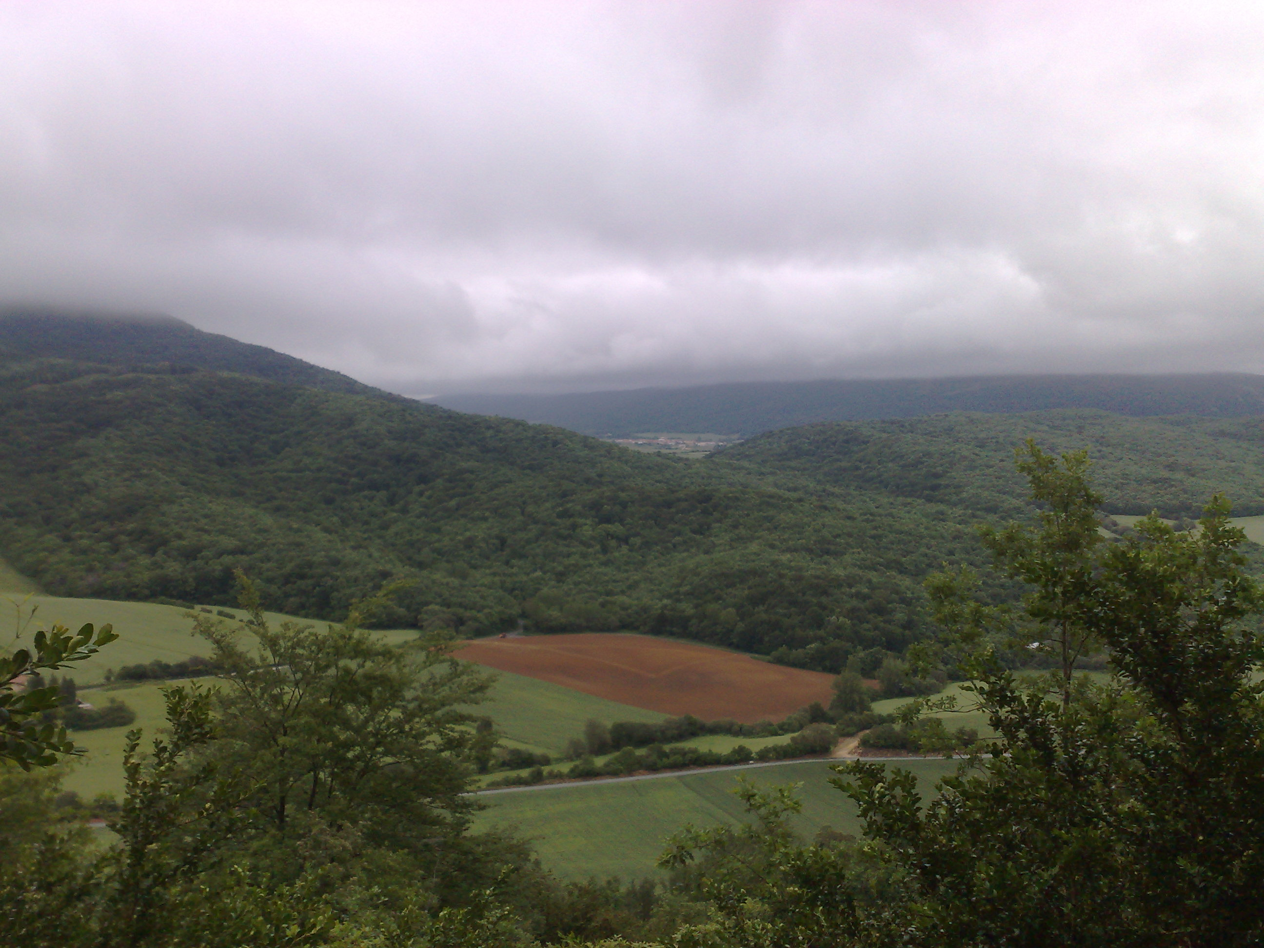 Done Bikendi Harana, a little village in Araba, Basque Country, seen at distance from the way to mount Arburu.